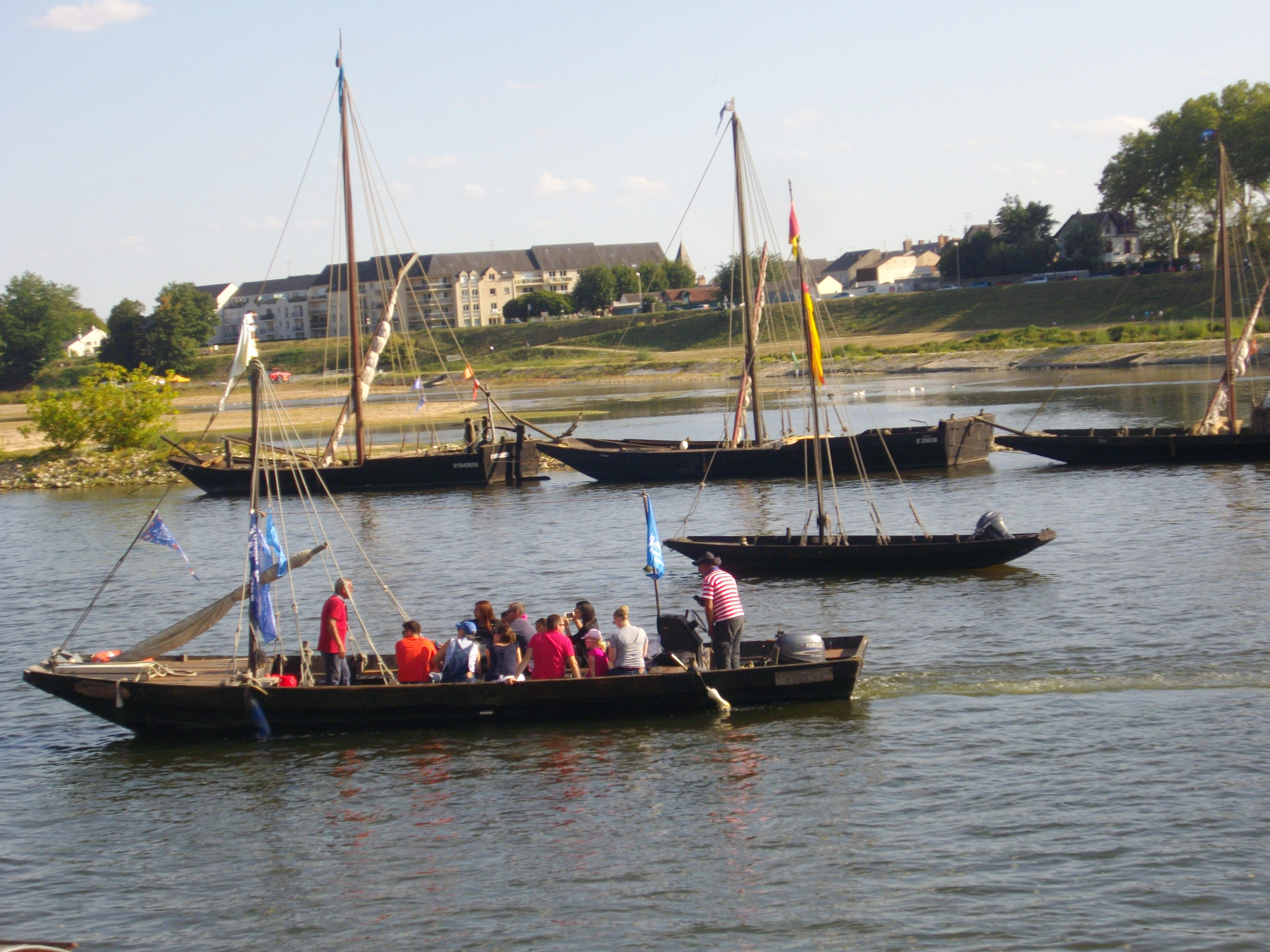 2019 Loire festival, in Orléans (Loiret, France)